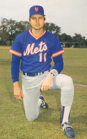 Professional baseball player Tim Teufel